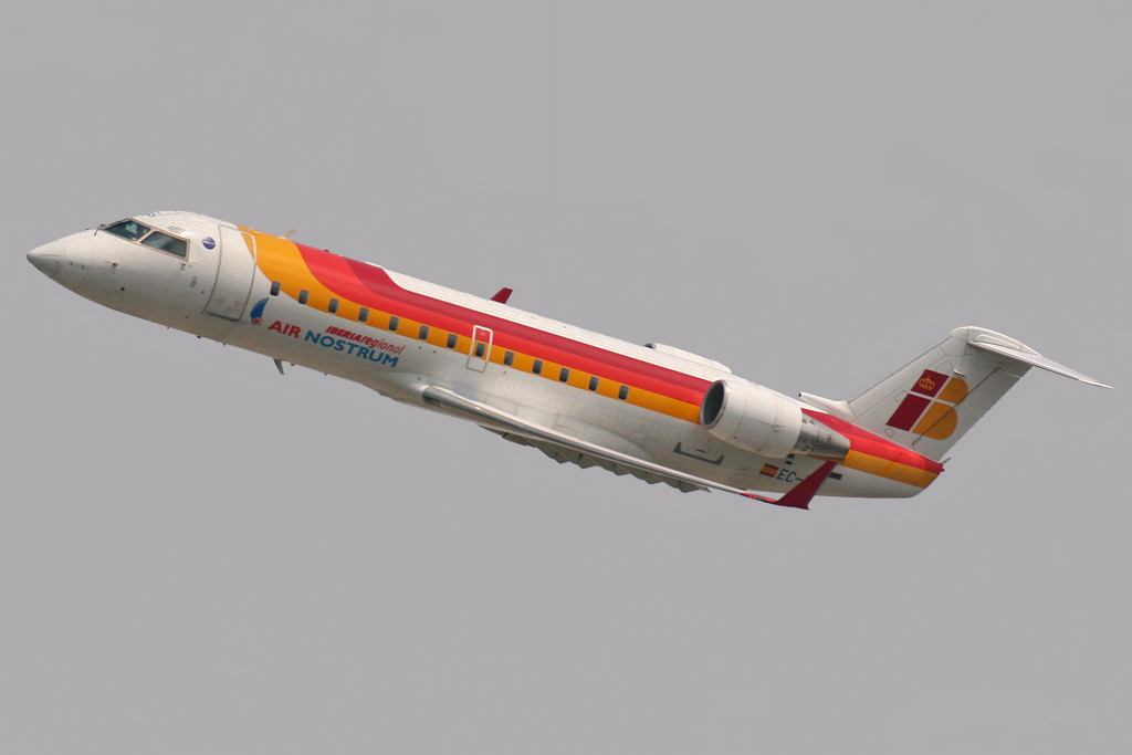 Banking after departure by rwy 25L of Barcelona Airport